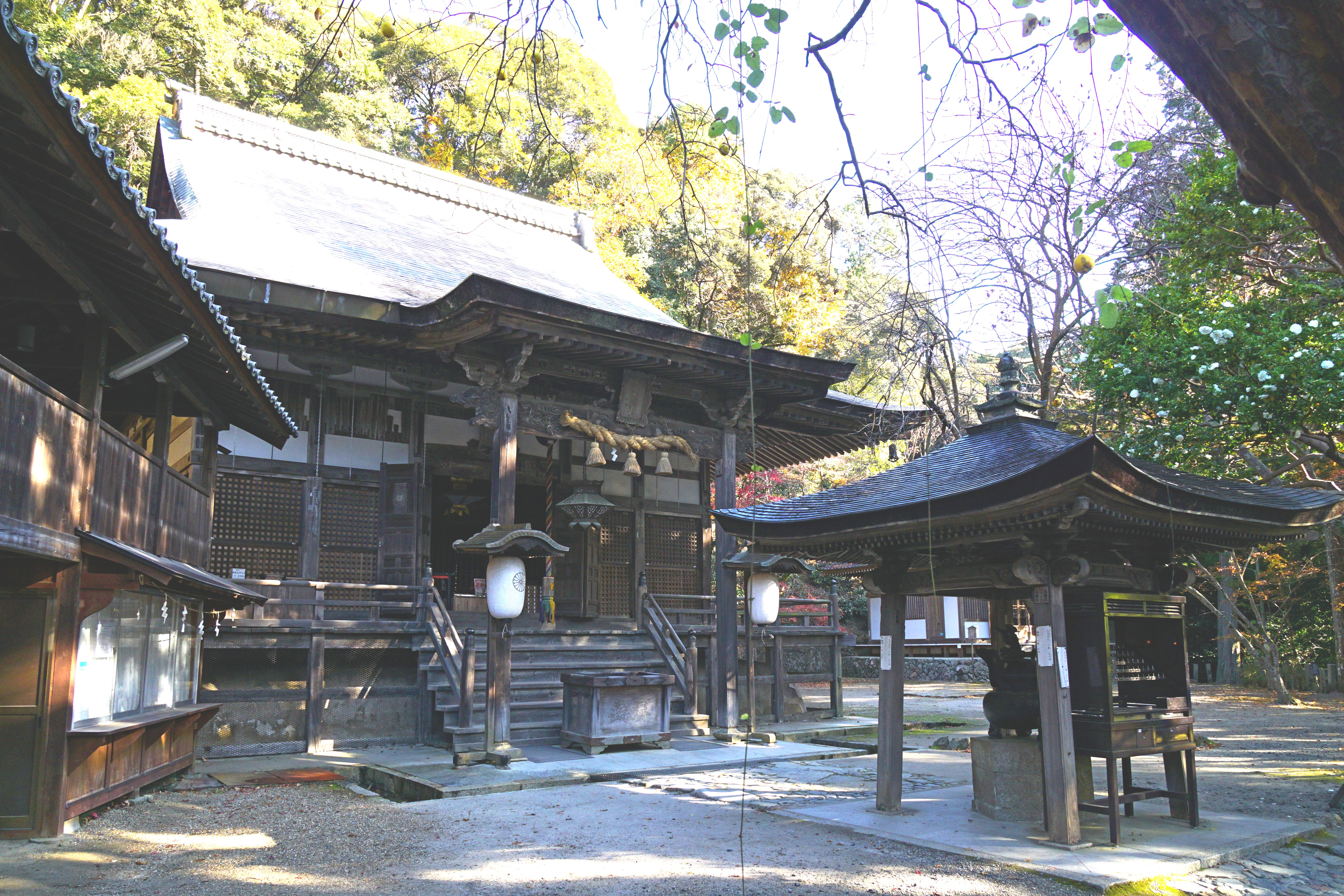 Main building of Kabusan-ji, temple at Takatsuki, Osaka prefecture, Japan